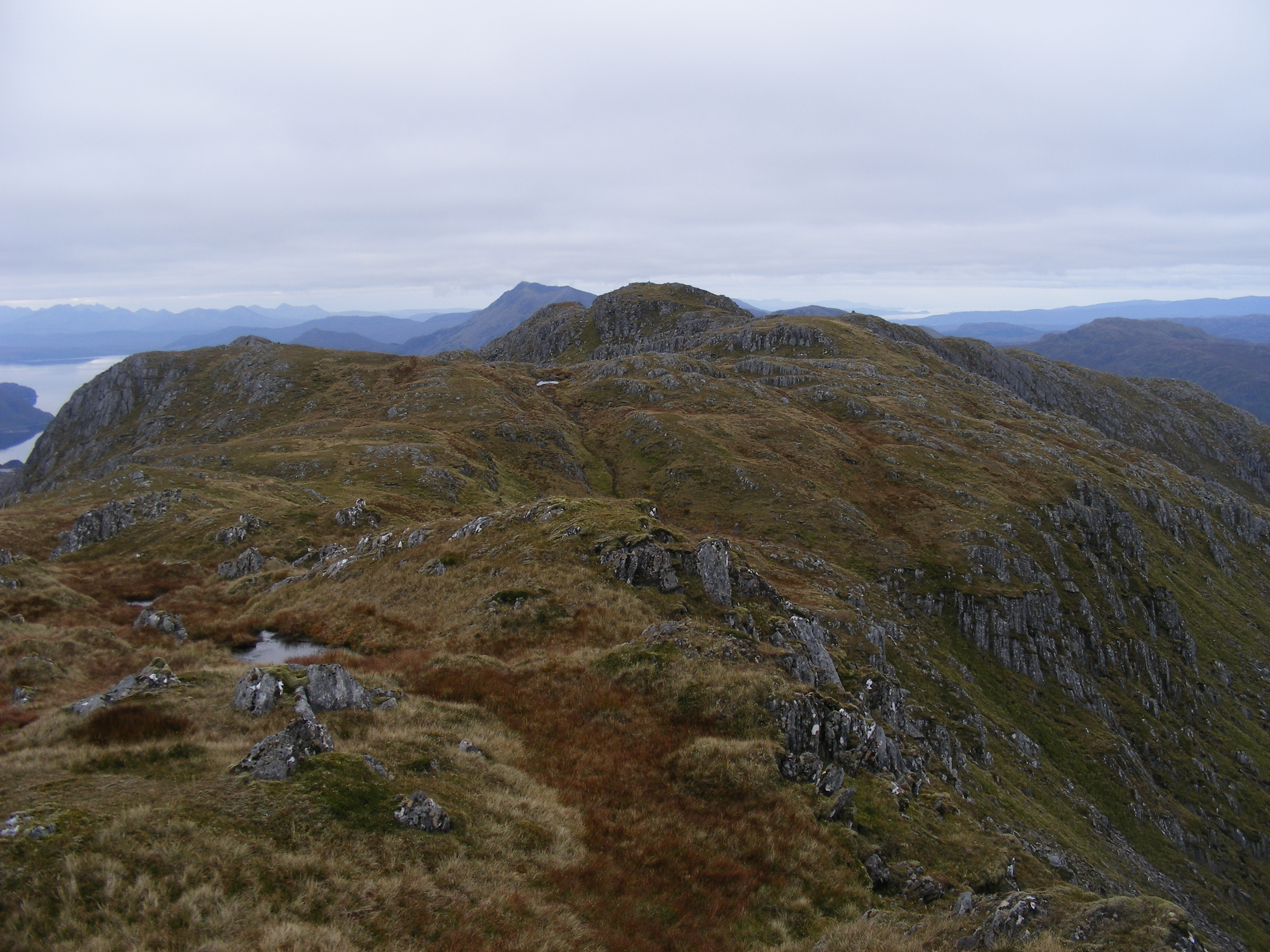 Looking north west along the summit ridge of Sgurr nan Eugallt, from the triangualtion point to the highest point